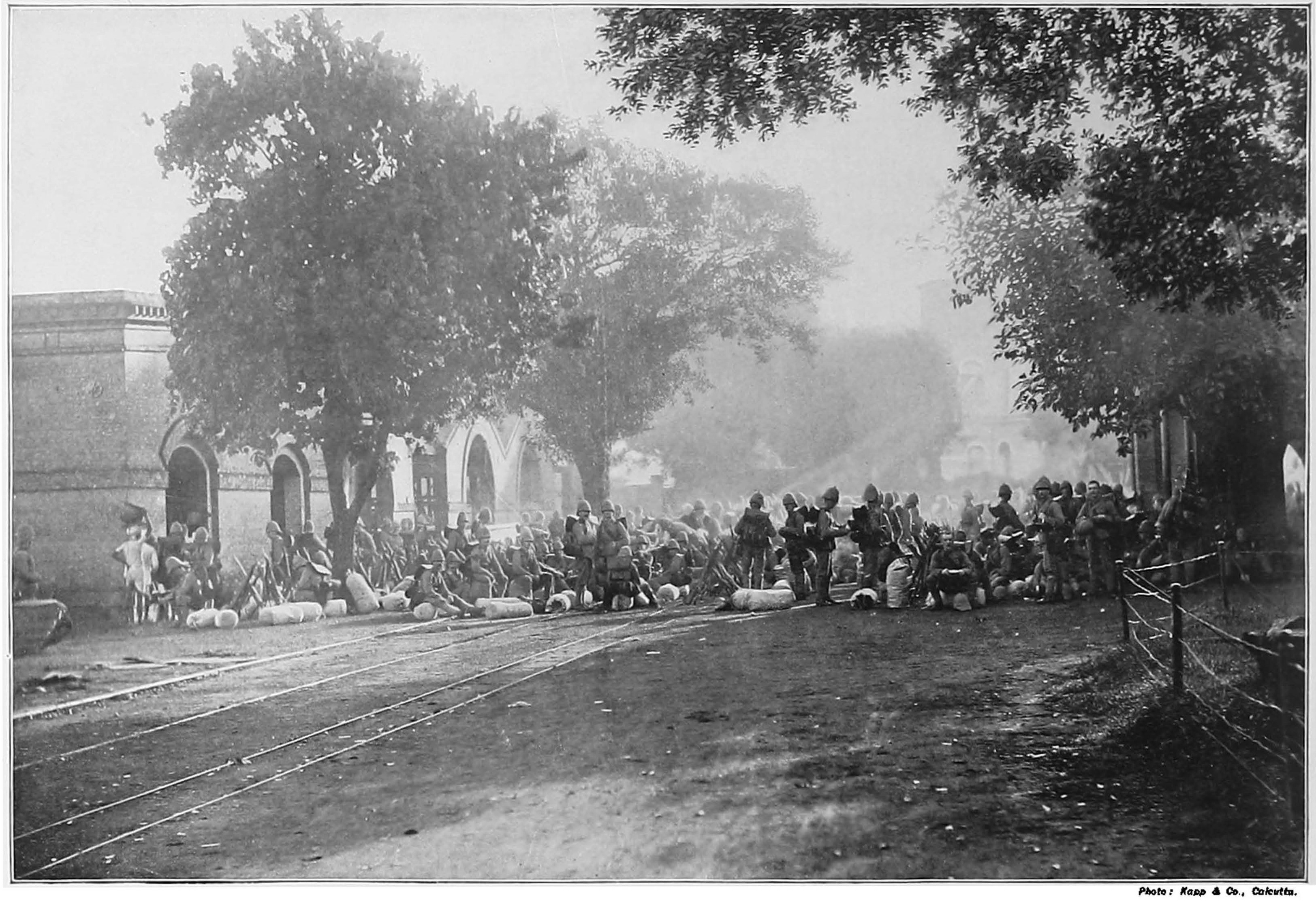 FROM CALCUTTA TO CAPE TOWN. We see here the 2nd King's Royal Rifles enjoying an early al fresco breakfast on the morning of their embarkation for South Africa, It was in response to the urgent representations of the Governor of Natal at the beginning of September, 1899, as to the insufficiently protected state of that Colony, that the Home Government decided to send reinforcements from India. The Indian contingent consisted of the 5th Dragoon Guards, the 9th Lancers, the 7th Hussars, the 1st Devonshires, the 1st Gloucesters, the 2nd Gordon Highlanders, and the 2nd King's Royal Rifles, together with the 42nd, 51st, and 53rd batteries of Field Artillery- Its arrival late in September raised the total number of our troops in South Africa to 22,000 men.